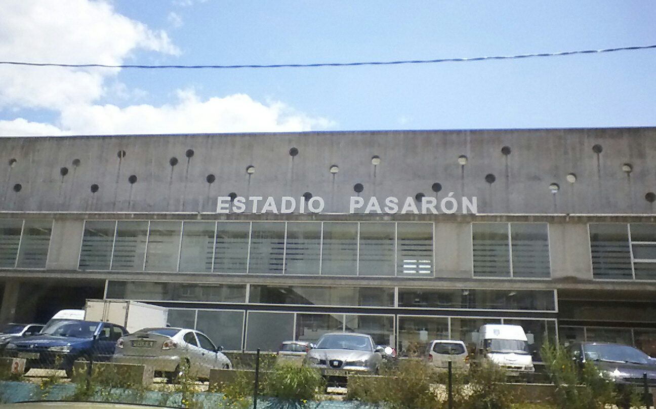 Pasaron Stadium in Pontevedra